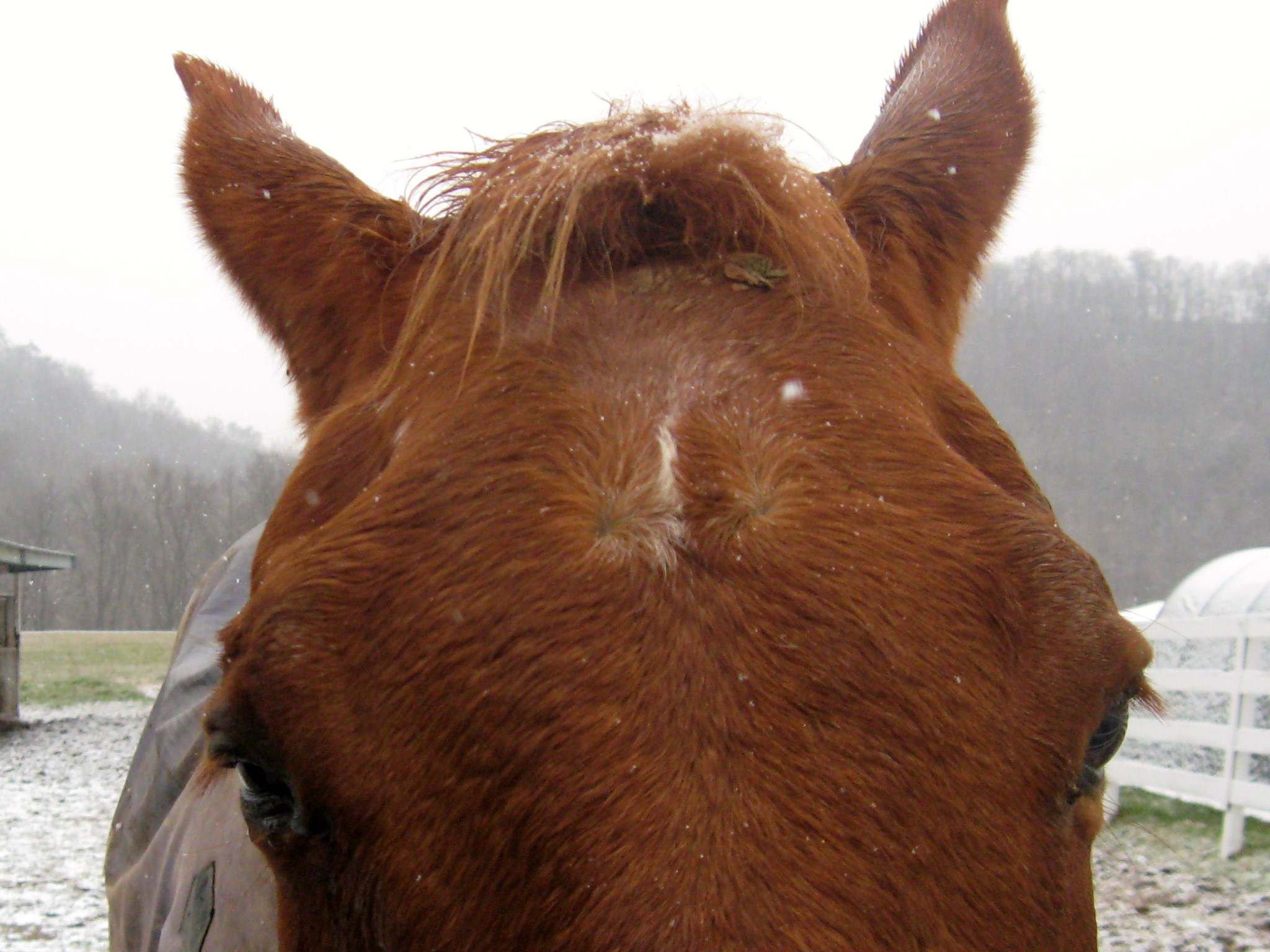 Outlaw has two whorls